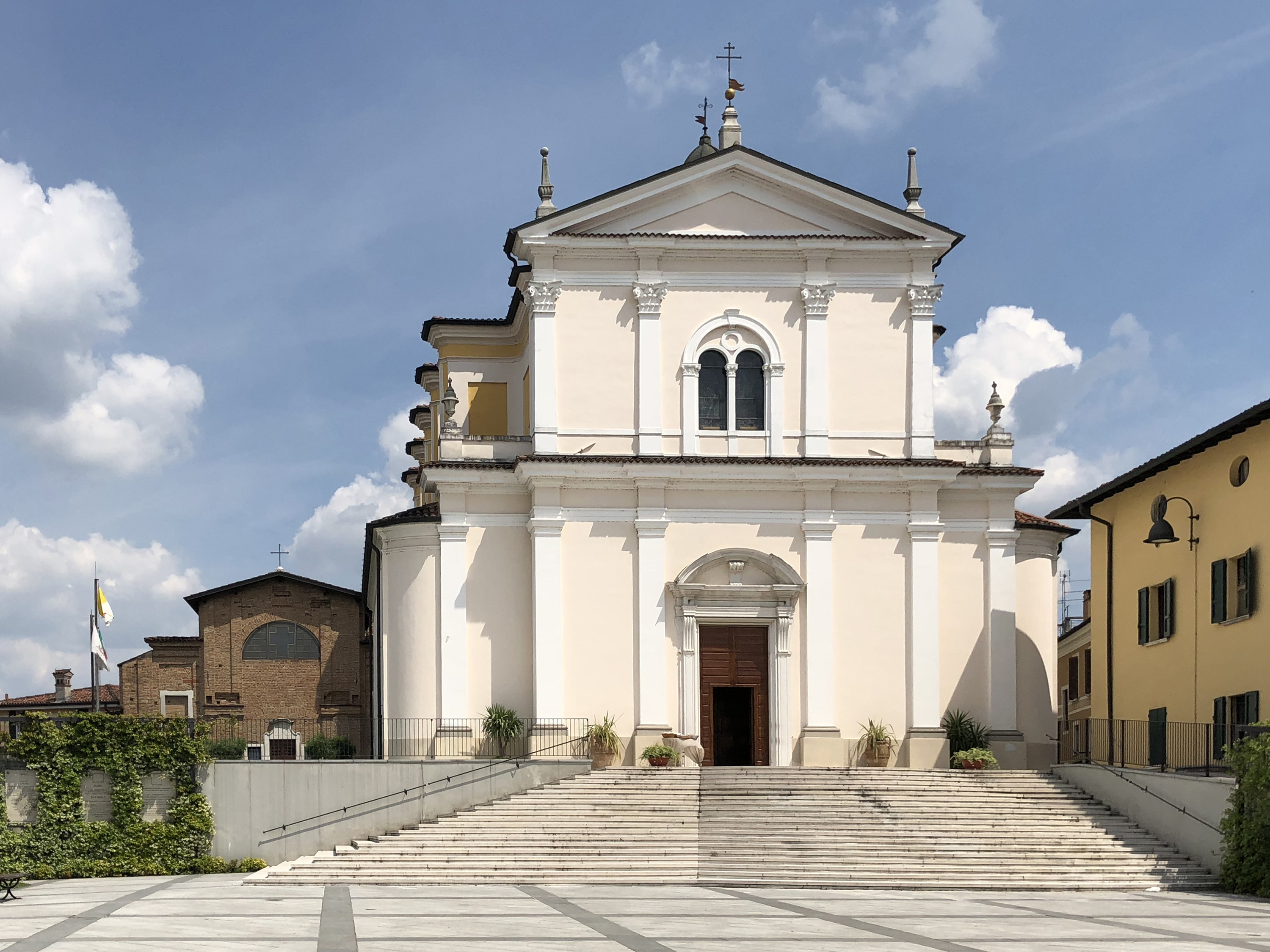 Sain Paul church in Flero province of Brescia Italy.